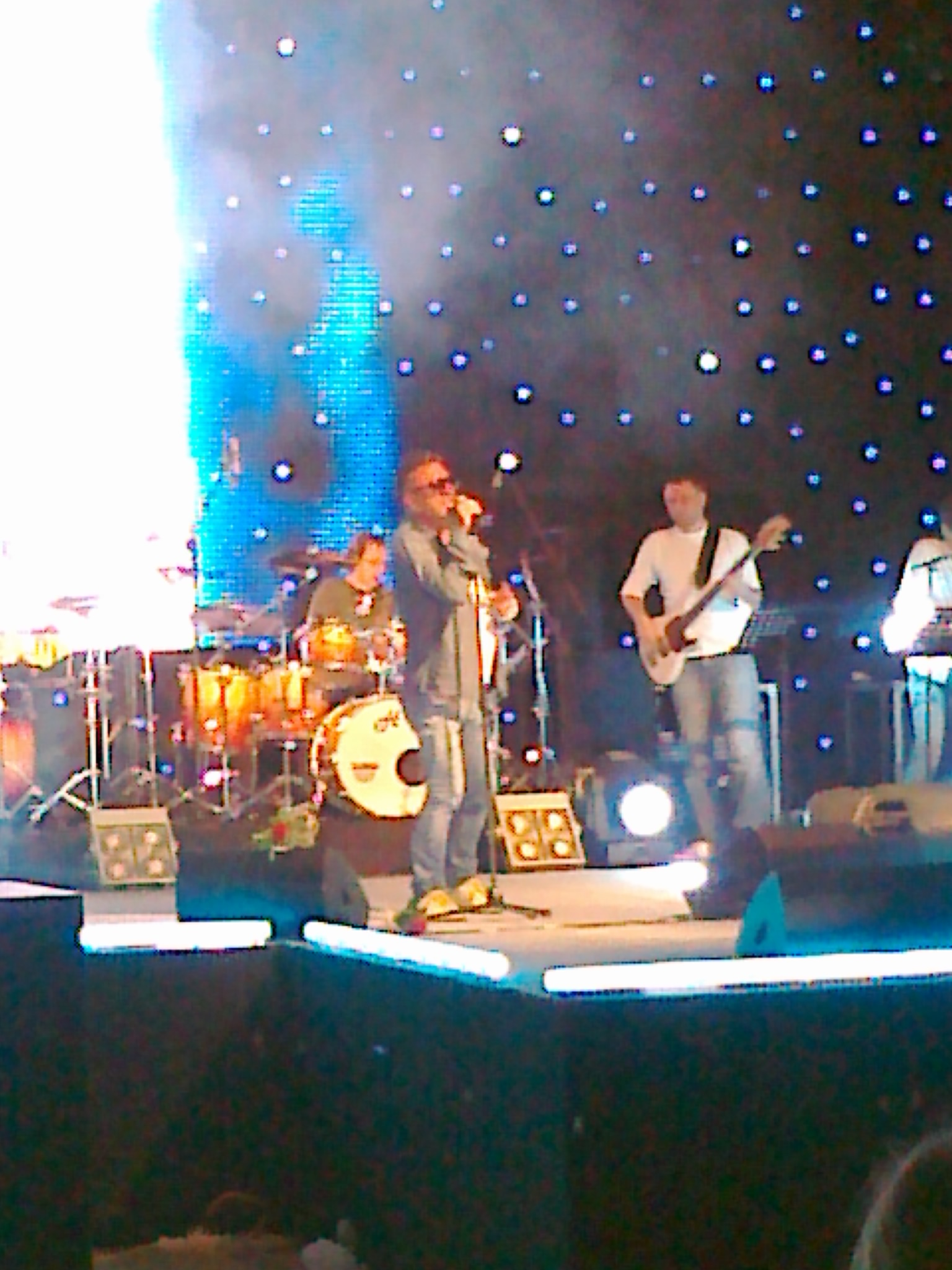 Tifa live in Sarajevo